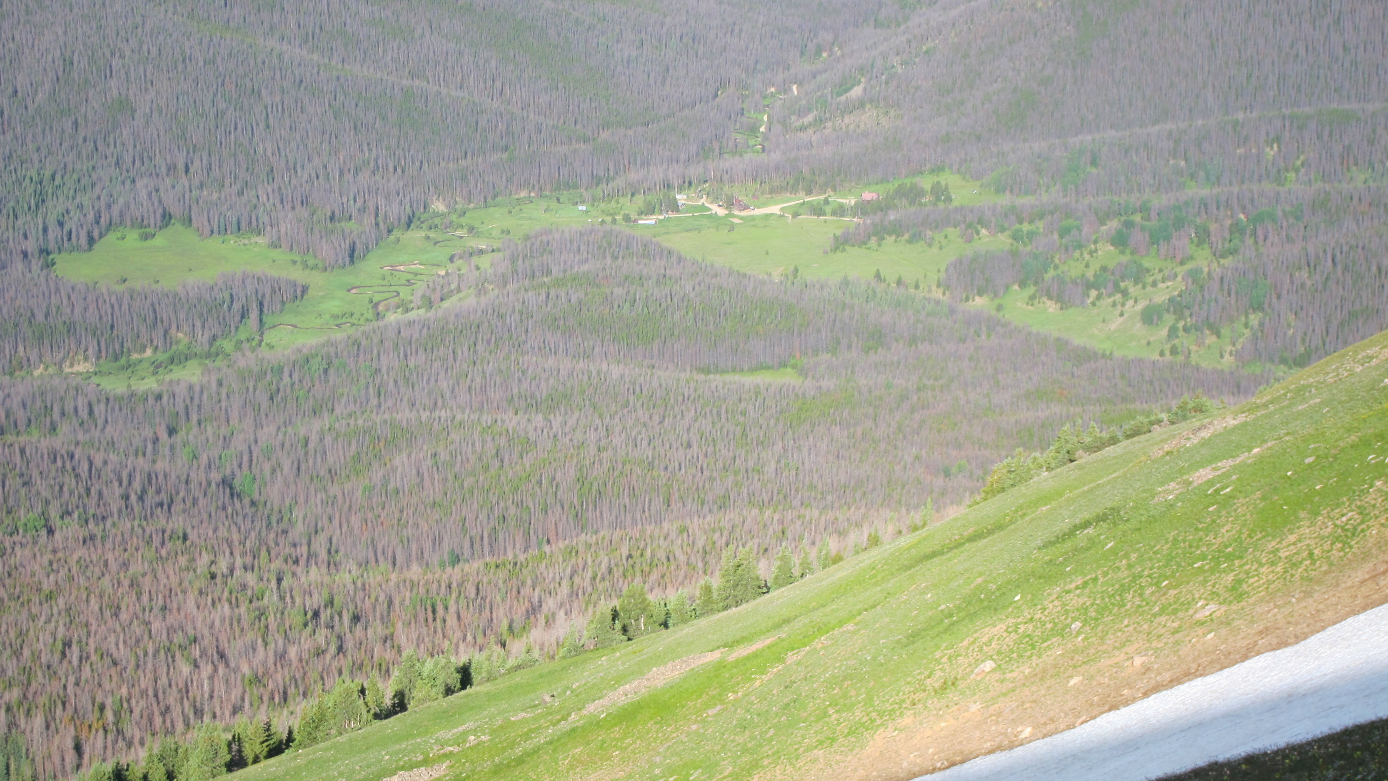 Pine beetle bark destruction in Colorado